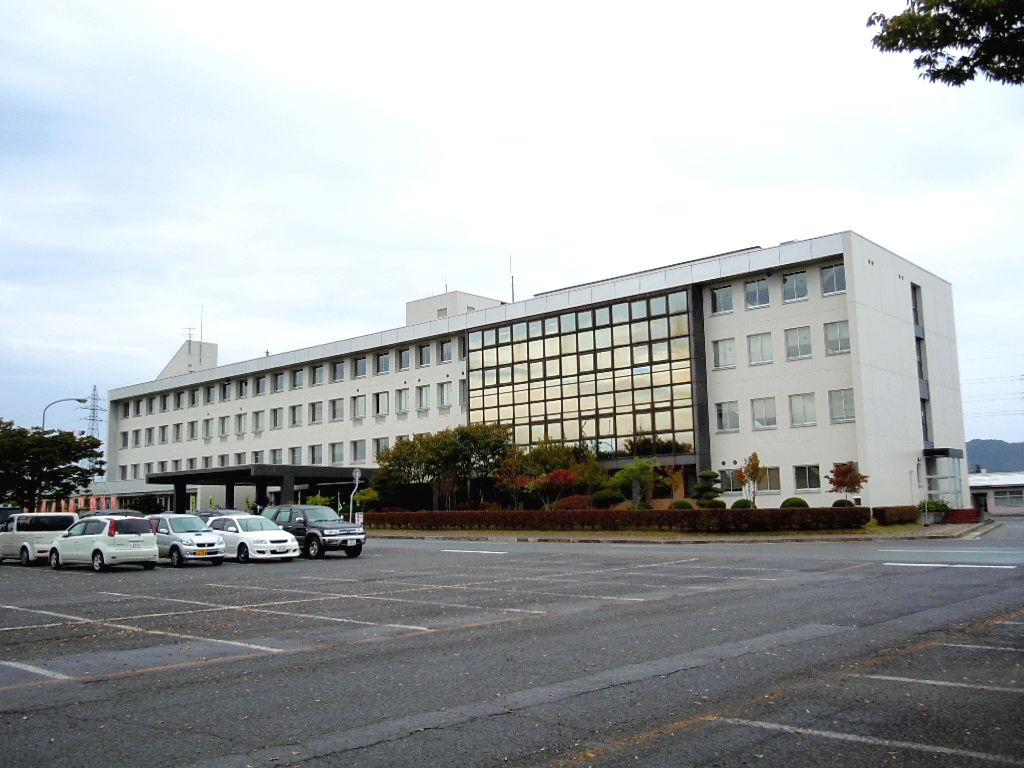 Nanyō city office